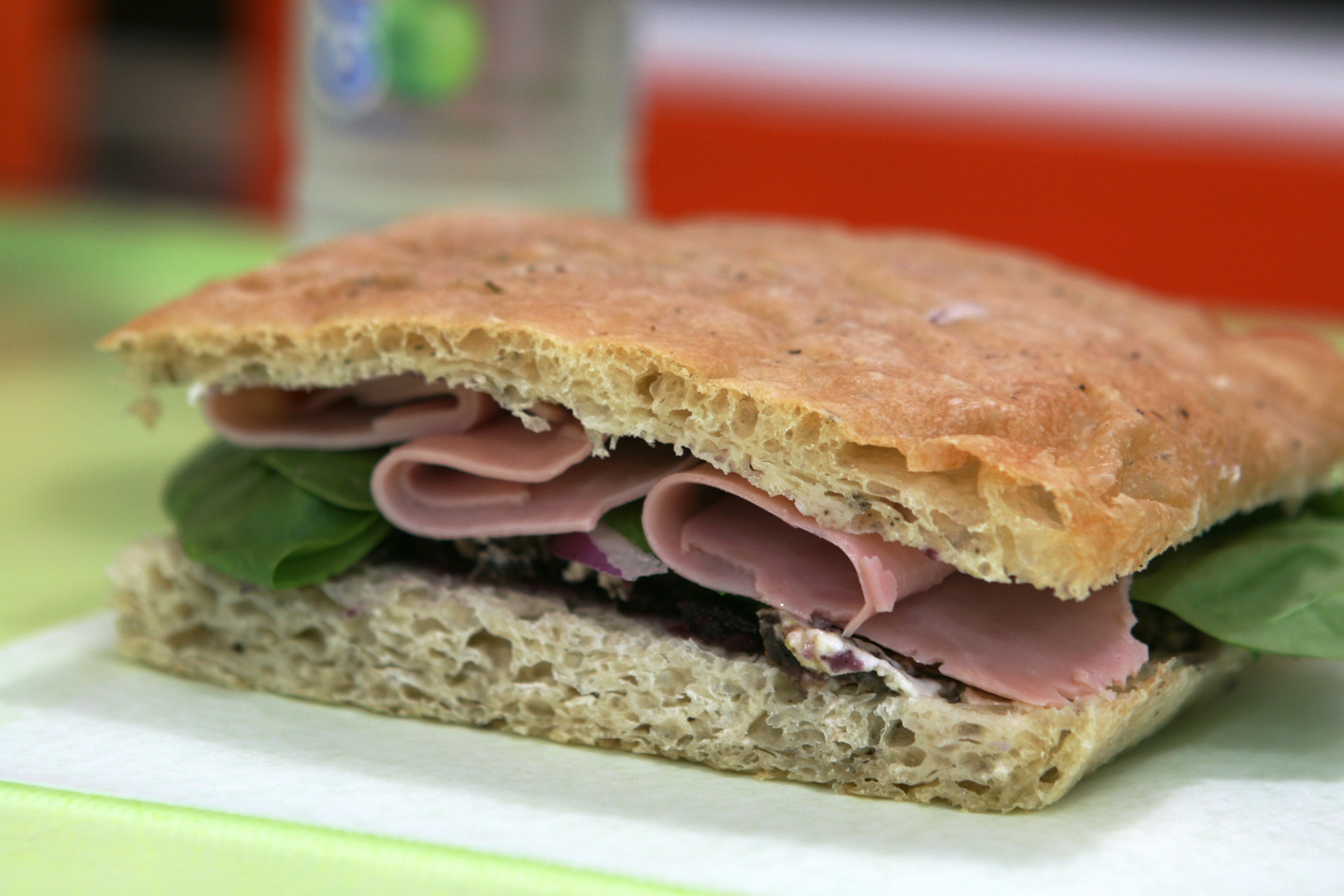 Ham, blueberry chutney, wasabi mustard, onions,lettuce,fig goat cheese on house-made foccacia. Won Best Deli Sandwich in America Award from Restaurant Hospitality Magazine.